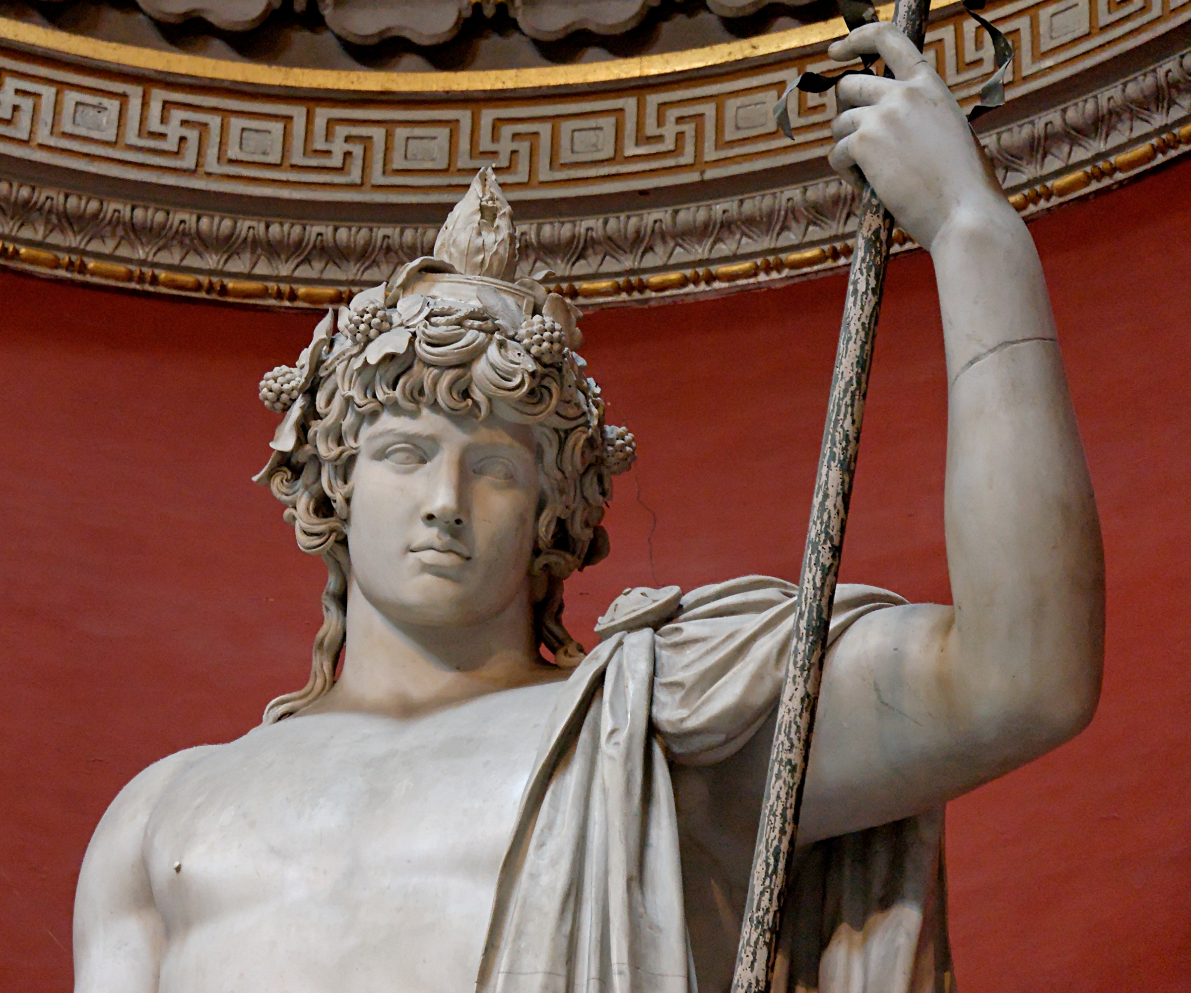 Colossal statue of Antinous as Dionysos-Osiris (ivy crown, head band, cistus and pine cone). Marble, Roman artwork.